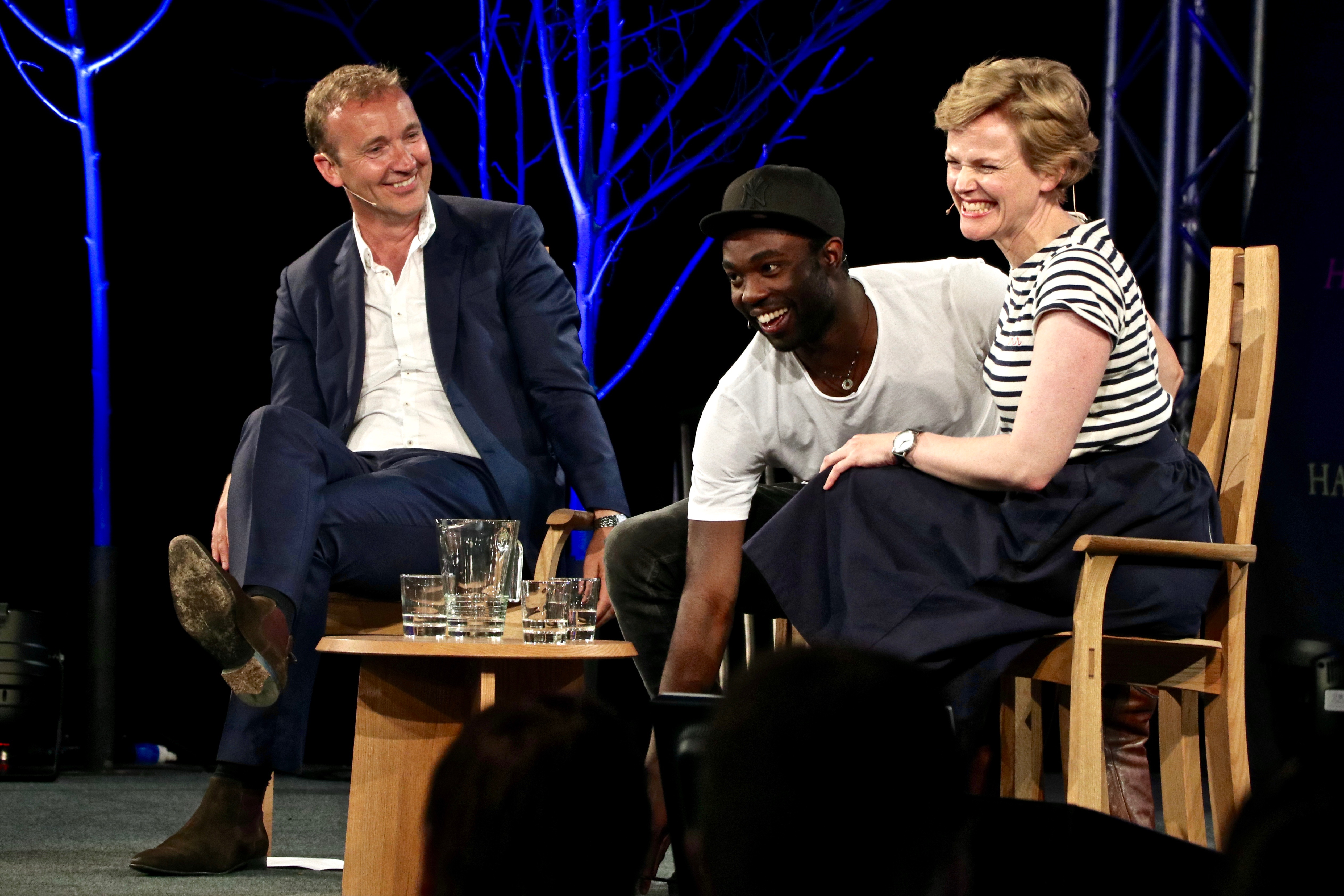 Hay Festival 2016 - Panel with Brotton, Essiedu, Peake